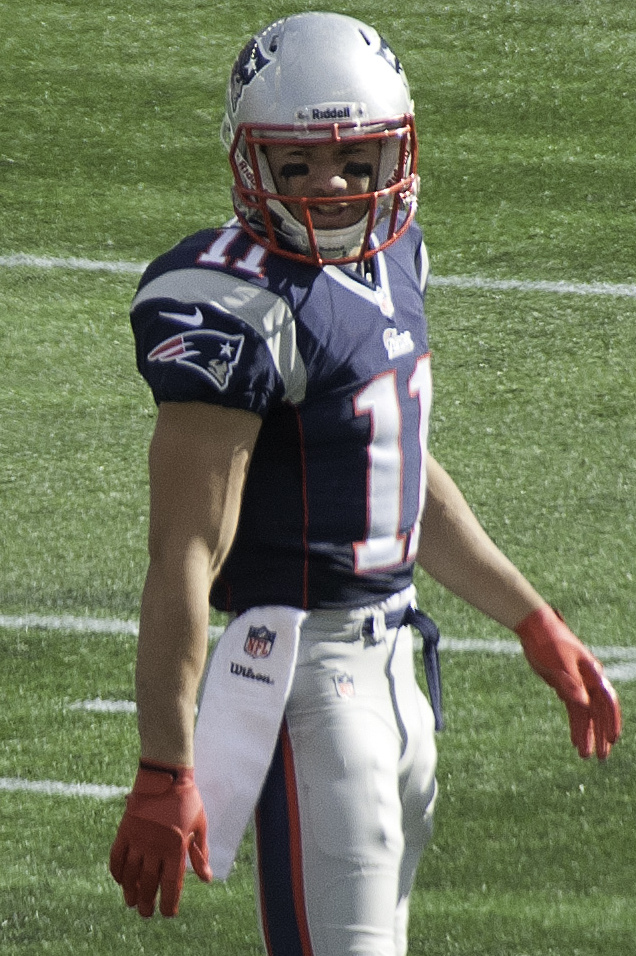 Patriots punt returner/receiver talks to an official before receiving a punt from the Miami Dolphins.